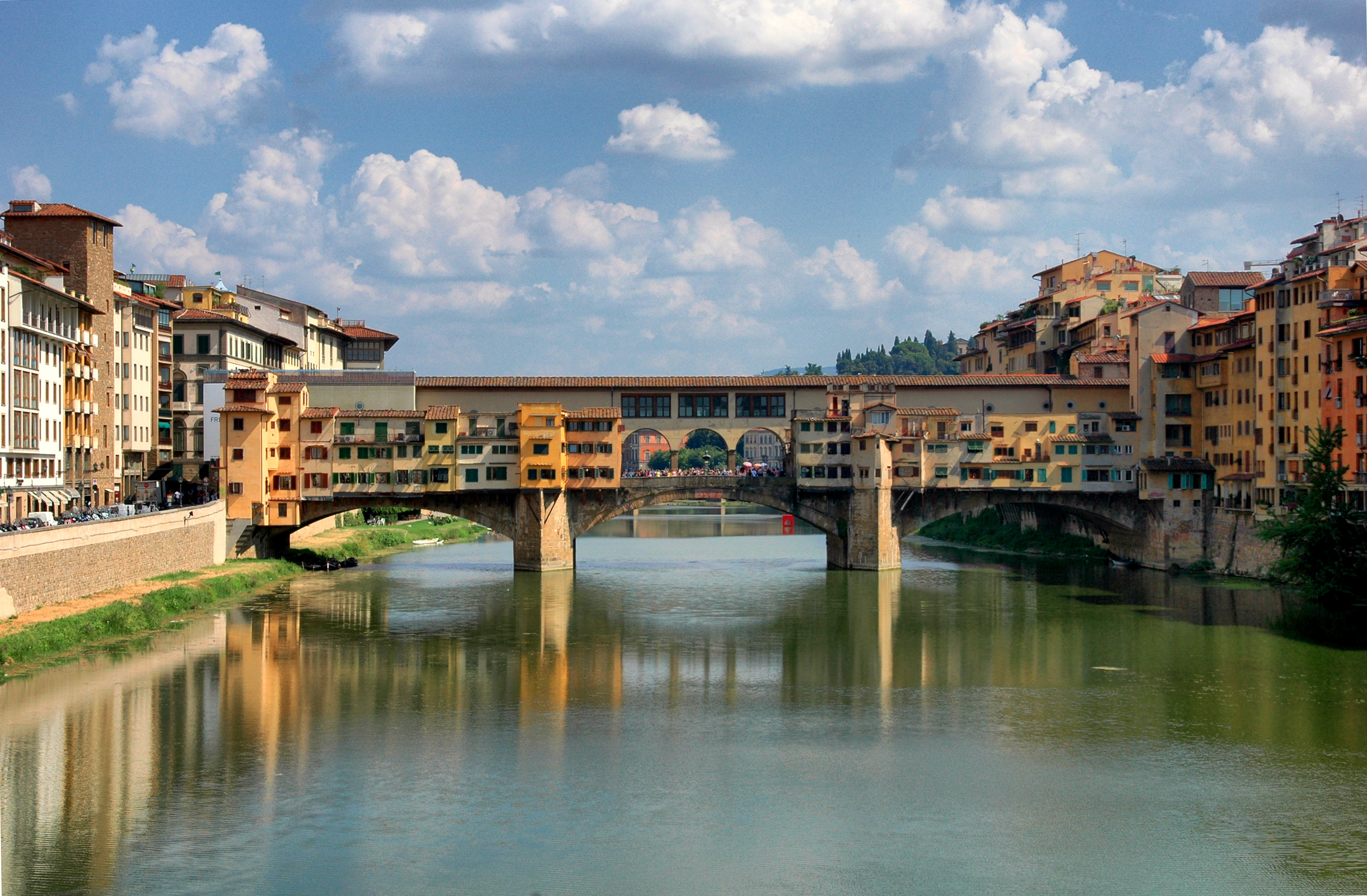 A HDR image of Ponte Vecchio in Florence